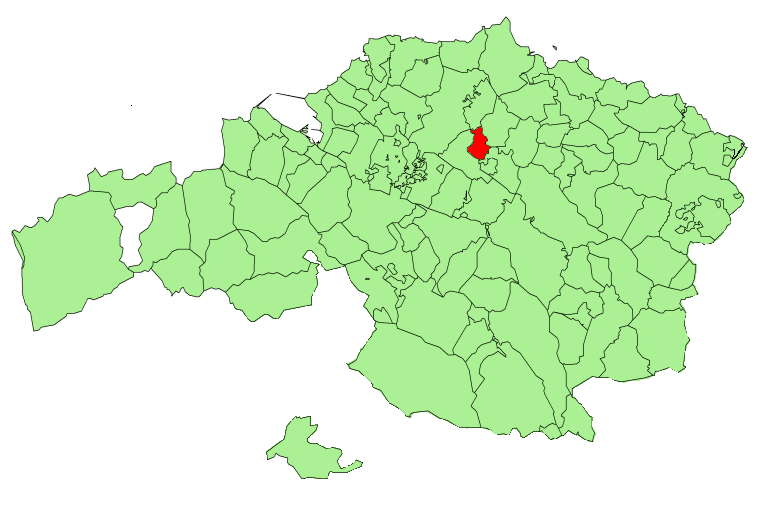 Fruiz municipality in the province of Biscay